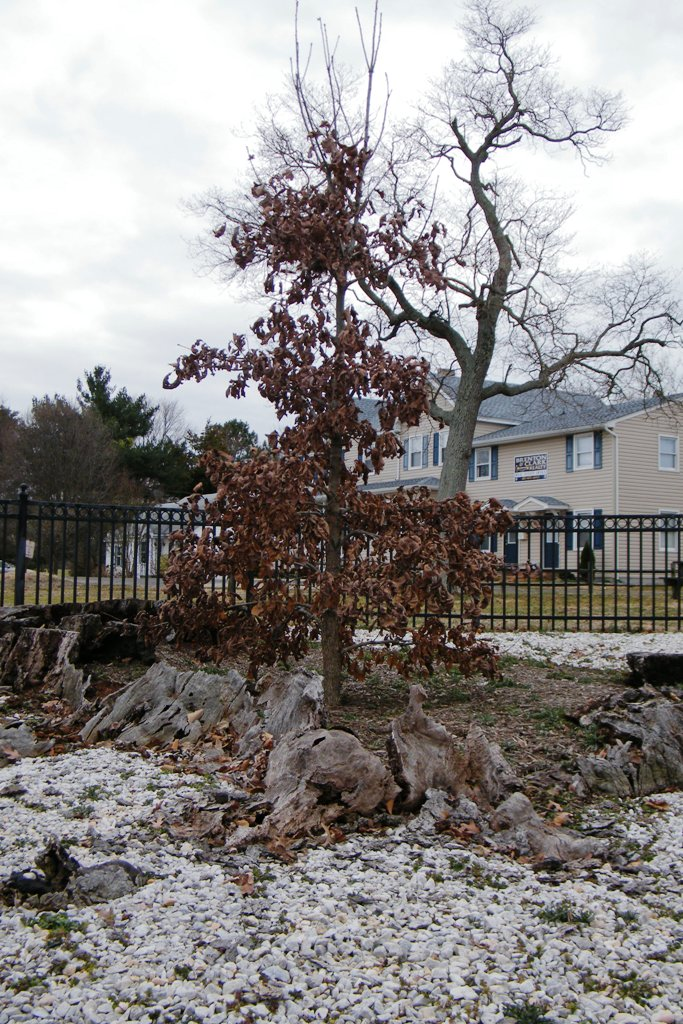 "The Baltimore Sun declared the Wye Oak “a symbol of all that is noble in ancient and honored trees, ...a battered giant from out of the mists of history which still resides among us.” At approximately 450 years of age, the noble giant fell in a storm on June 6, 2002. America’s largest white oak, the Wye Oak inspired State Forester F. W. Besley to found the Big Tree Champion Program in 1925—a program later adopted across the nation. To commemorate the Wye Oak’s legacy, and to celebrate 100 years of forestry in Maryland, the Maryland Forest Service planted and dedicated this clone seedling at Wye Oak State Park on June 6, 2006."